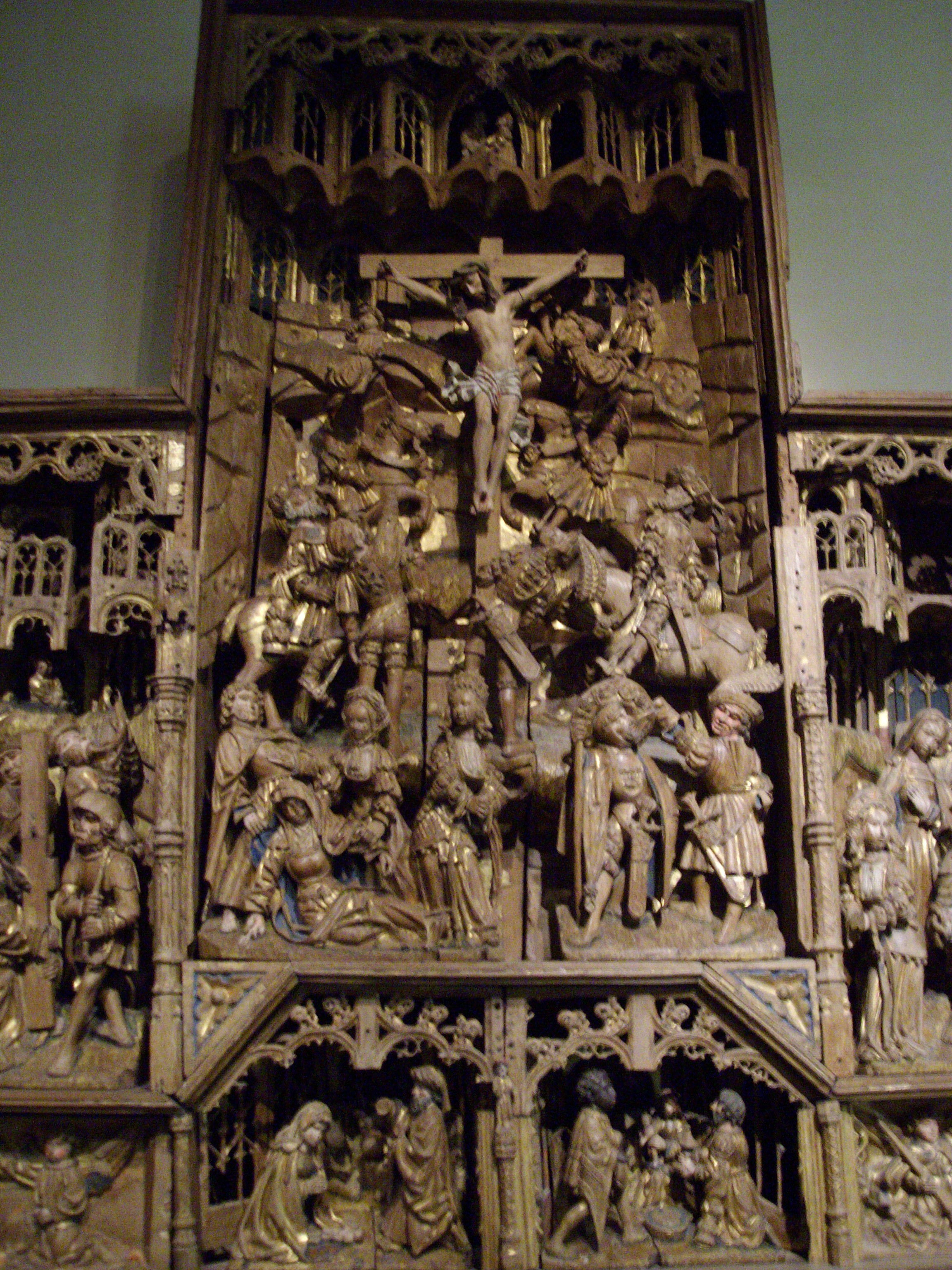 Altarpiece